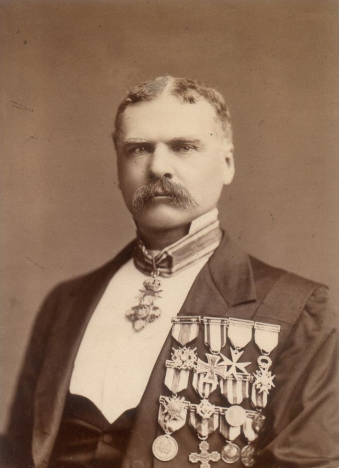 Archibald Forbes, Cabinet Photograph.